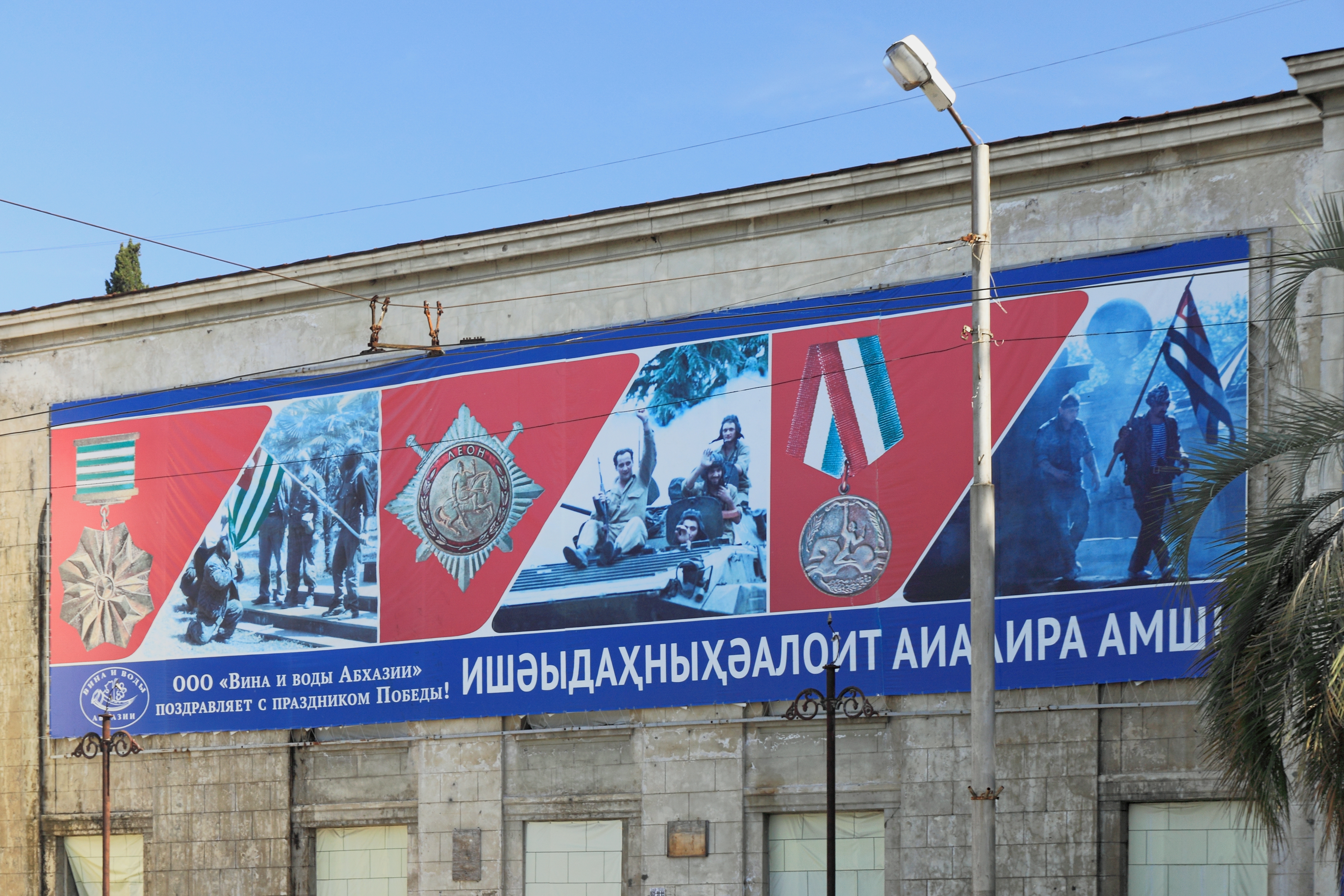 National-patriotic banner on the wall. Sukhumi, Abkhazia.